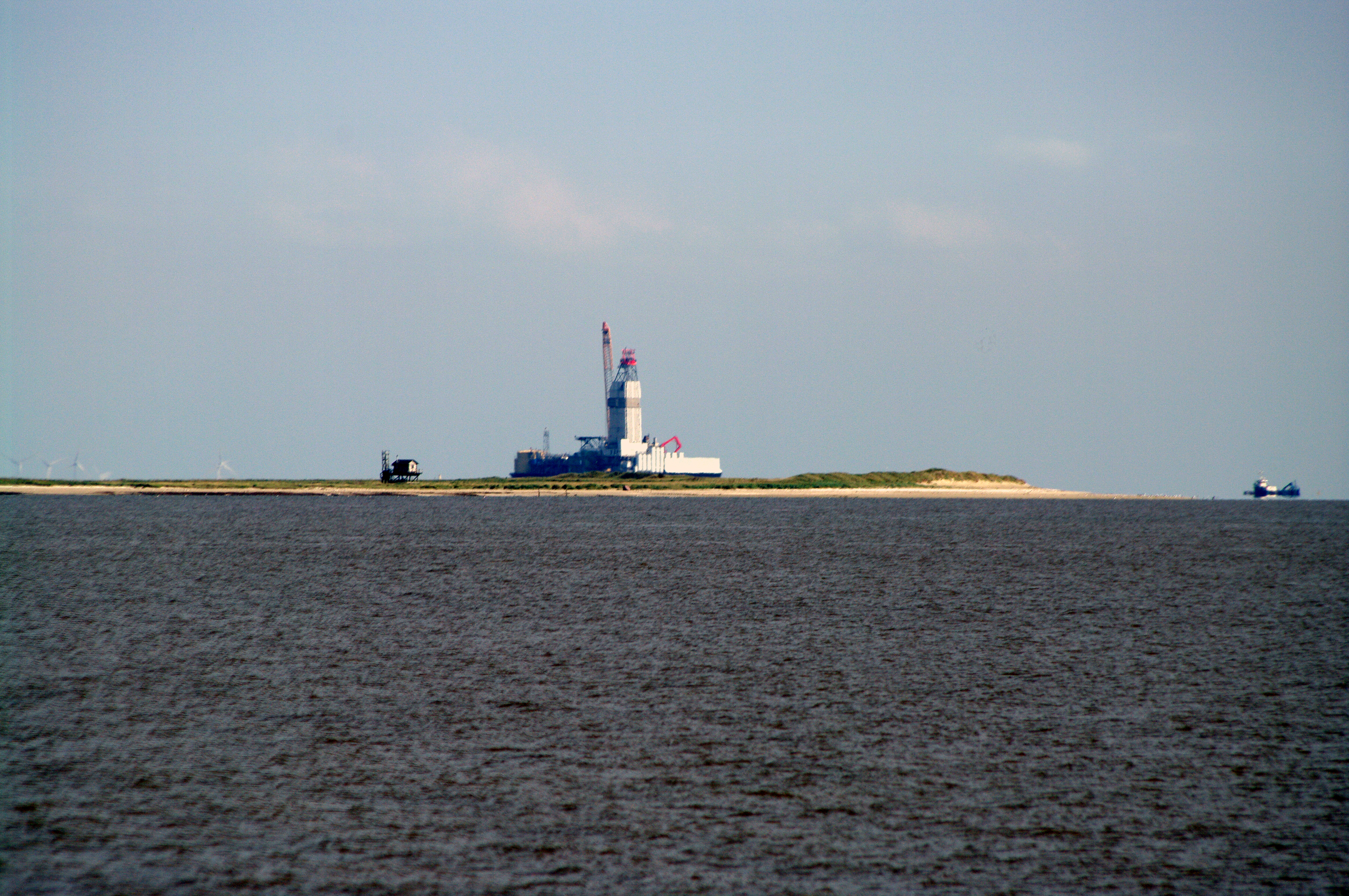 Trischen Island in the North Sea. House of the sole inhabitant, the birds guardian. In the background: Mittelplate oil rig.